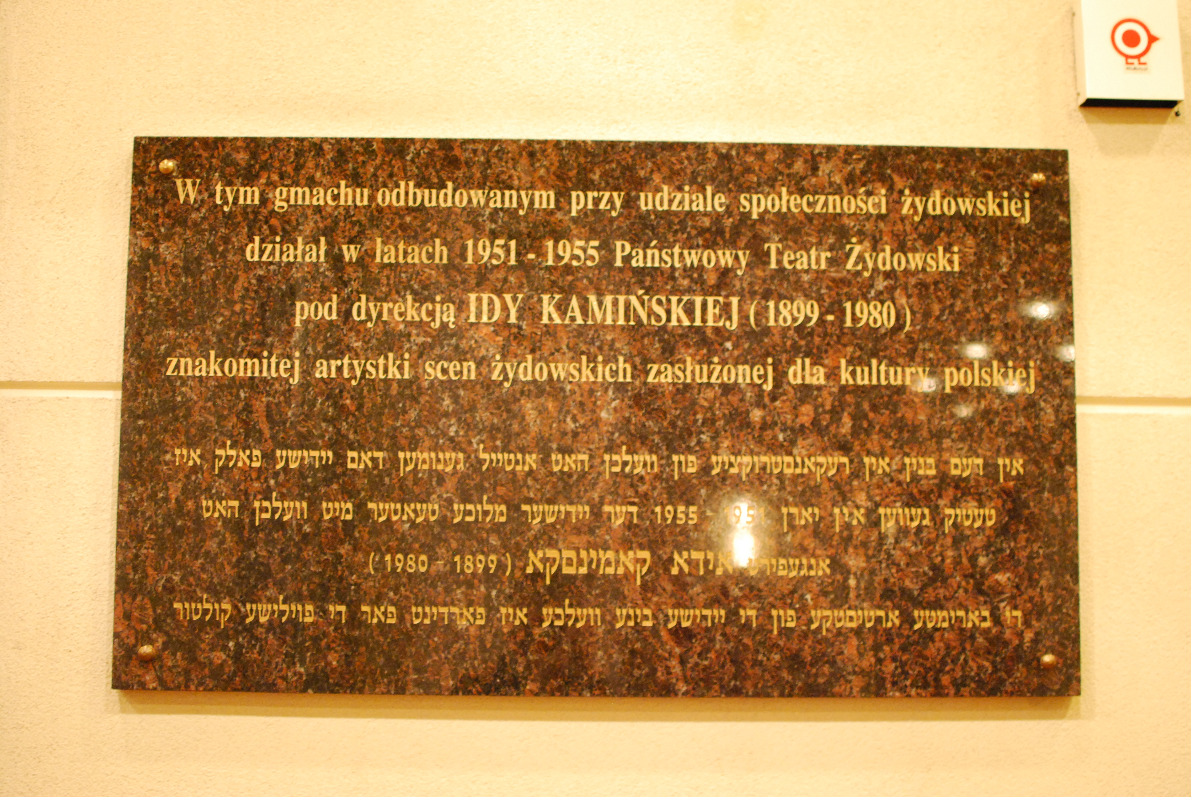 Ida Kamińska plaque, Łódź Teatr Nowy